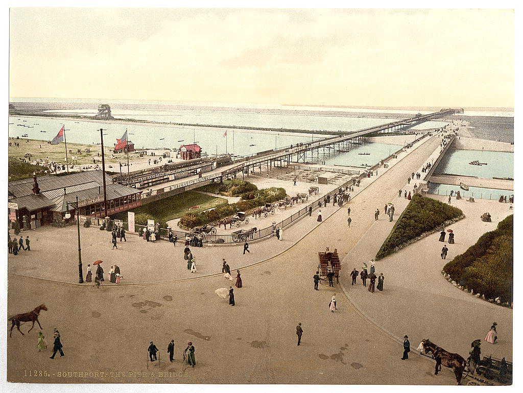 [Pier and bridge, Southport, England] [between ca. 1890 and ca. 1900]. 1 photomechanical print : photochrom, colour. Notes: Title from the Detroit Publishing Co., Catalogue J--foreign section, Detroit, Mich. : Detroit Publishing Company, 1905. Print no. "11285". Forms part of: Views of the British Isles, in the Photochrom print collection. Subjects: England--Southport. Format: Photochrom prints--Colour--1890-1900. Repository: Library of Congress, Prints and Photographs Division, Washington, D.C. 20540 USA, Part Of: Views of the British Isles (DLC) 2002696059 More information about the Photochrom Print Collection is available at Higher resolution image is available (Persistent URL): Call Number: LOT 13415, no. 876 [item]